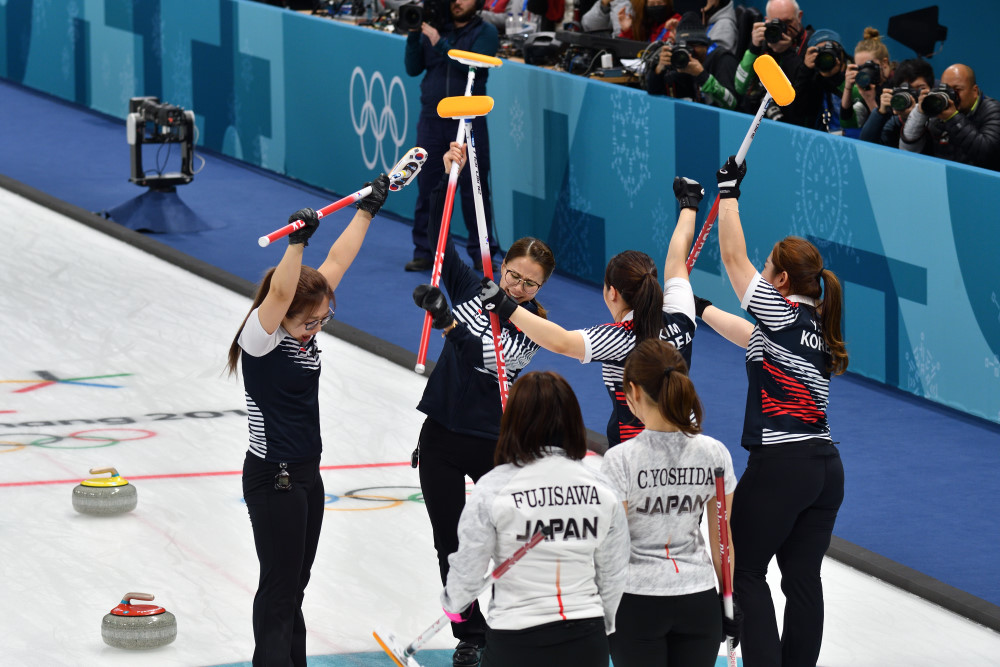 Republic of Korea Ladies Curling Team at PyeongChang 2018 Winter Olympic Games